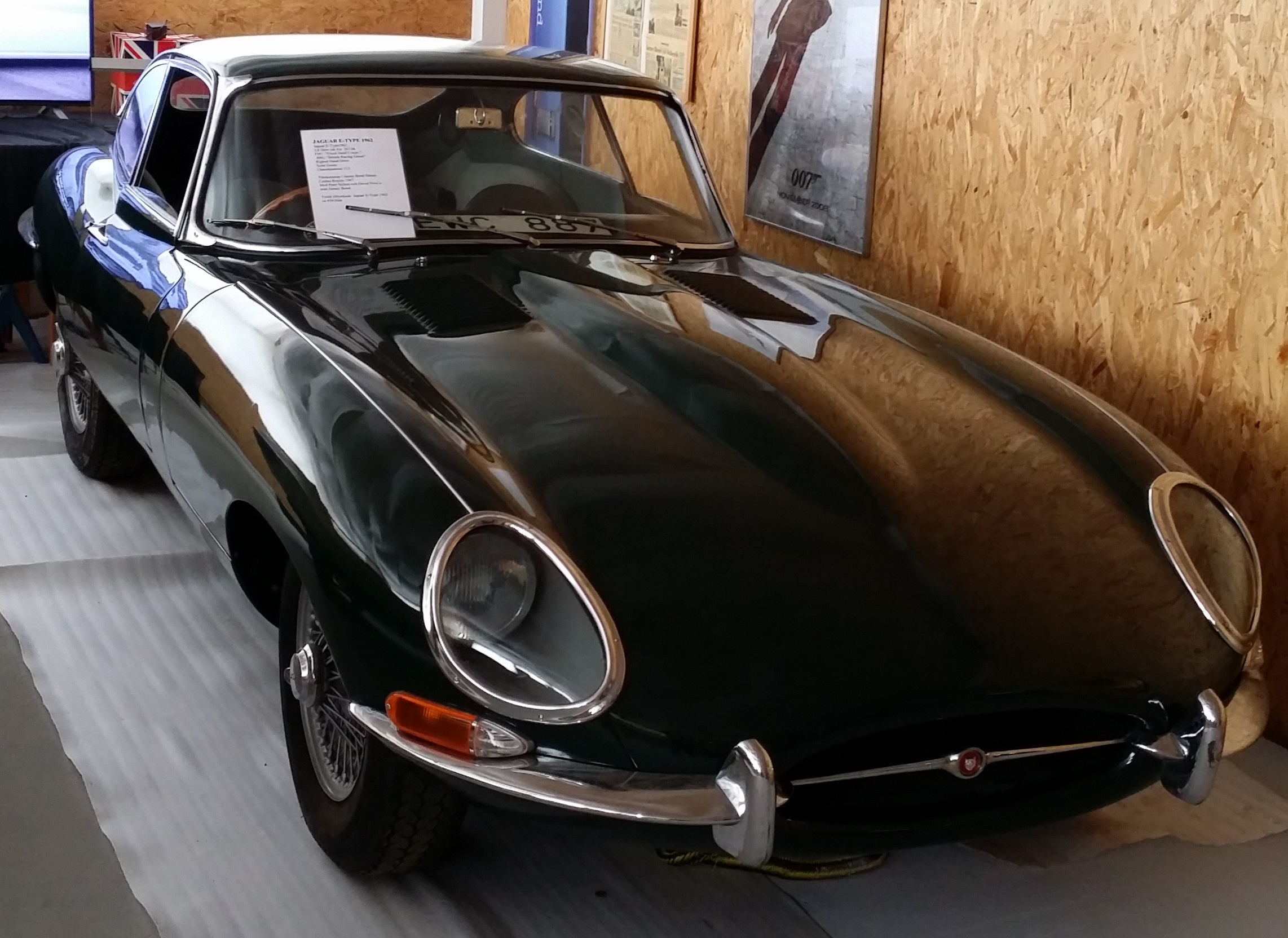 The Jaguar E-Type 1962 used in Casino Royale (1967). This car is located at the James Bond 007 Museum in Nybro, Sweden.